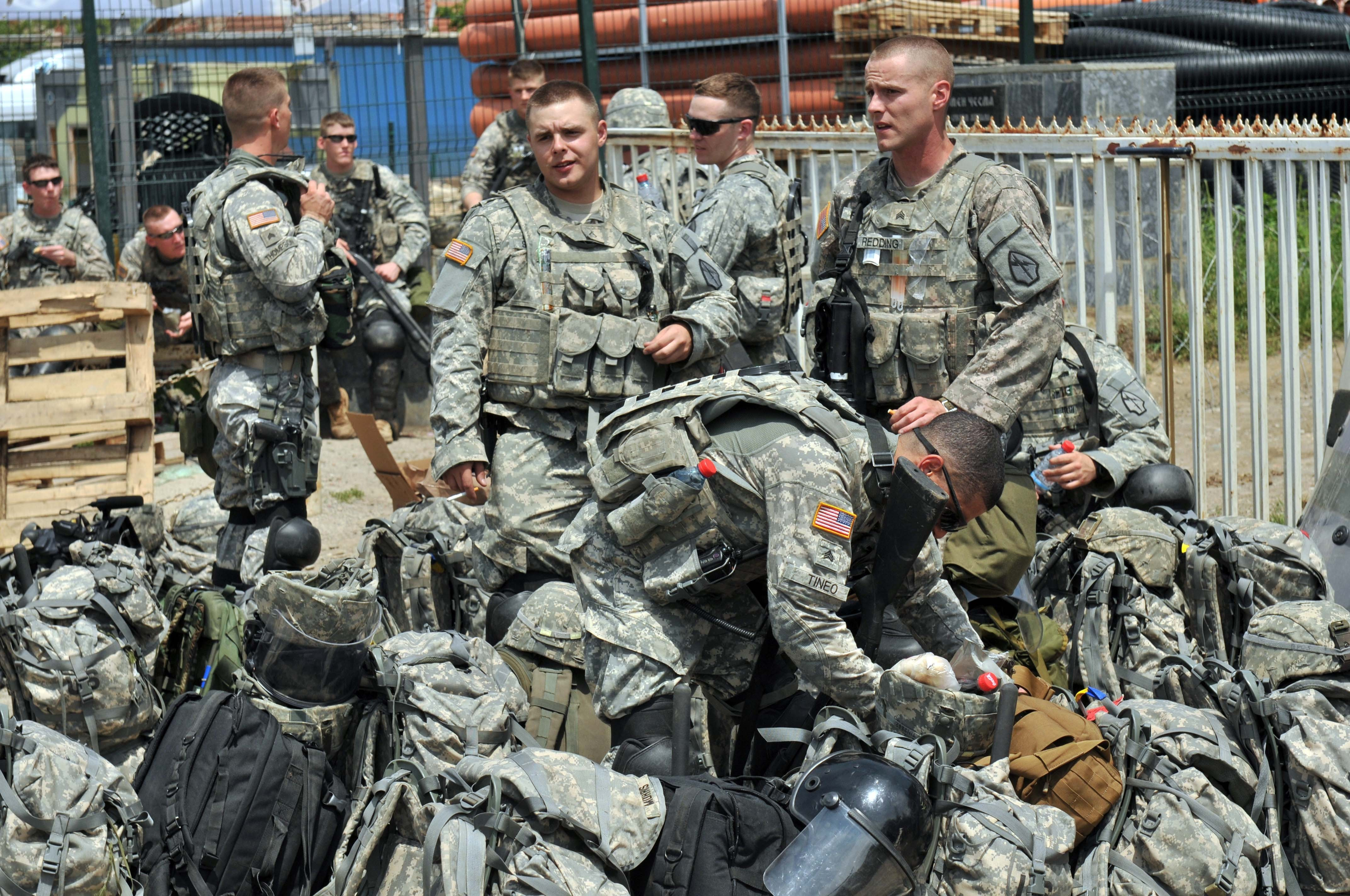 A platoon from 3rd Squadron, 108th Cavalry Regiment, Georgia Army National Guard, rests during roadblock removal operations, June 1, 2012. Two Kosovo Force soldiers were injured by gunfire during the operation after unidentified individuals in a violent crowd opened fire on security forces providing a cordon around roadblock removal efforts. KFOR responded in self-defense, using tear gas, rubber bullets and live ammunition.